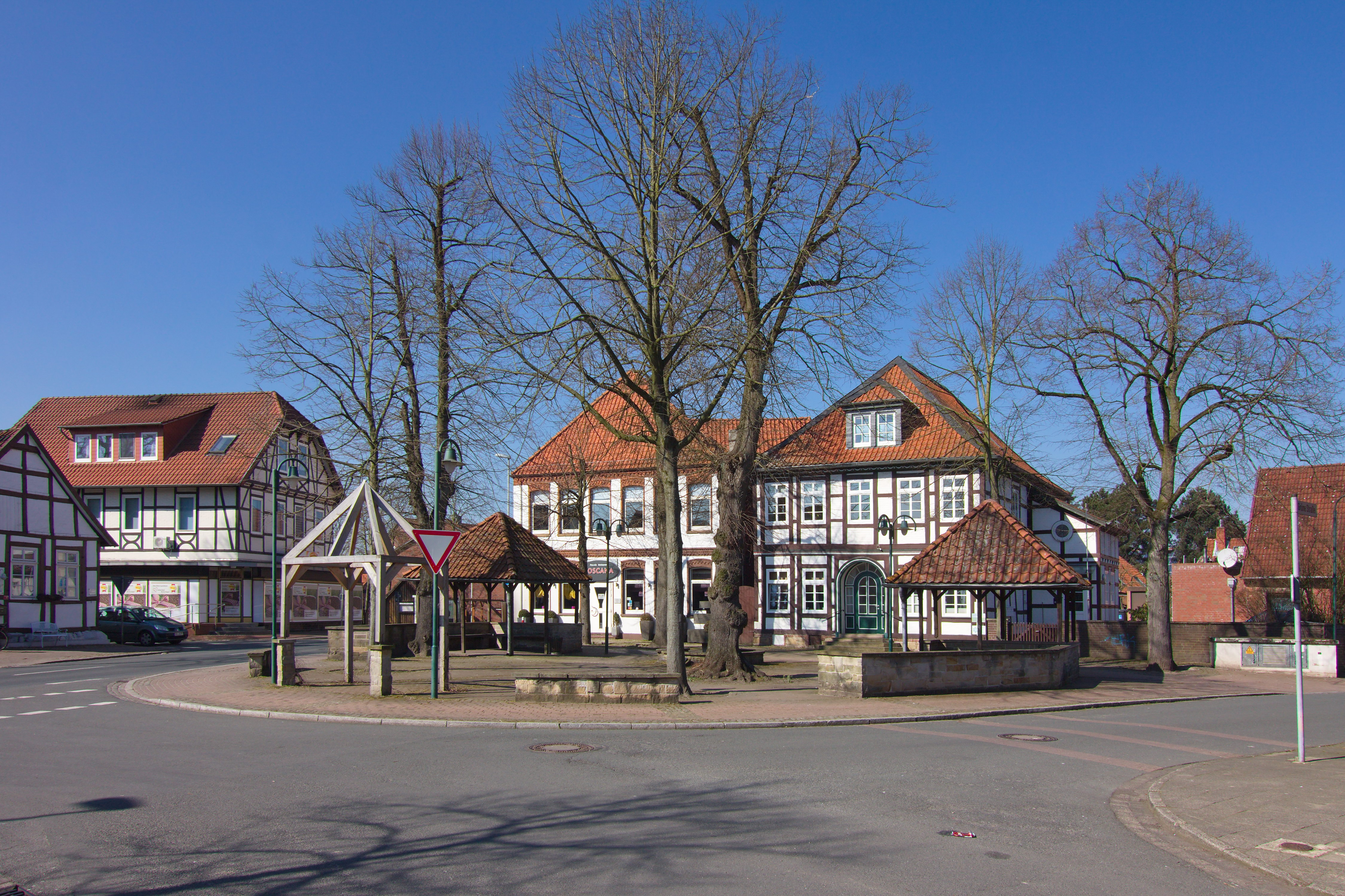 Ortsblick Liebenau, Niedersachsen, Deutschland.